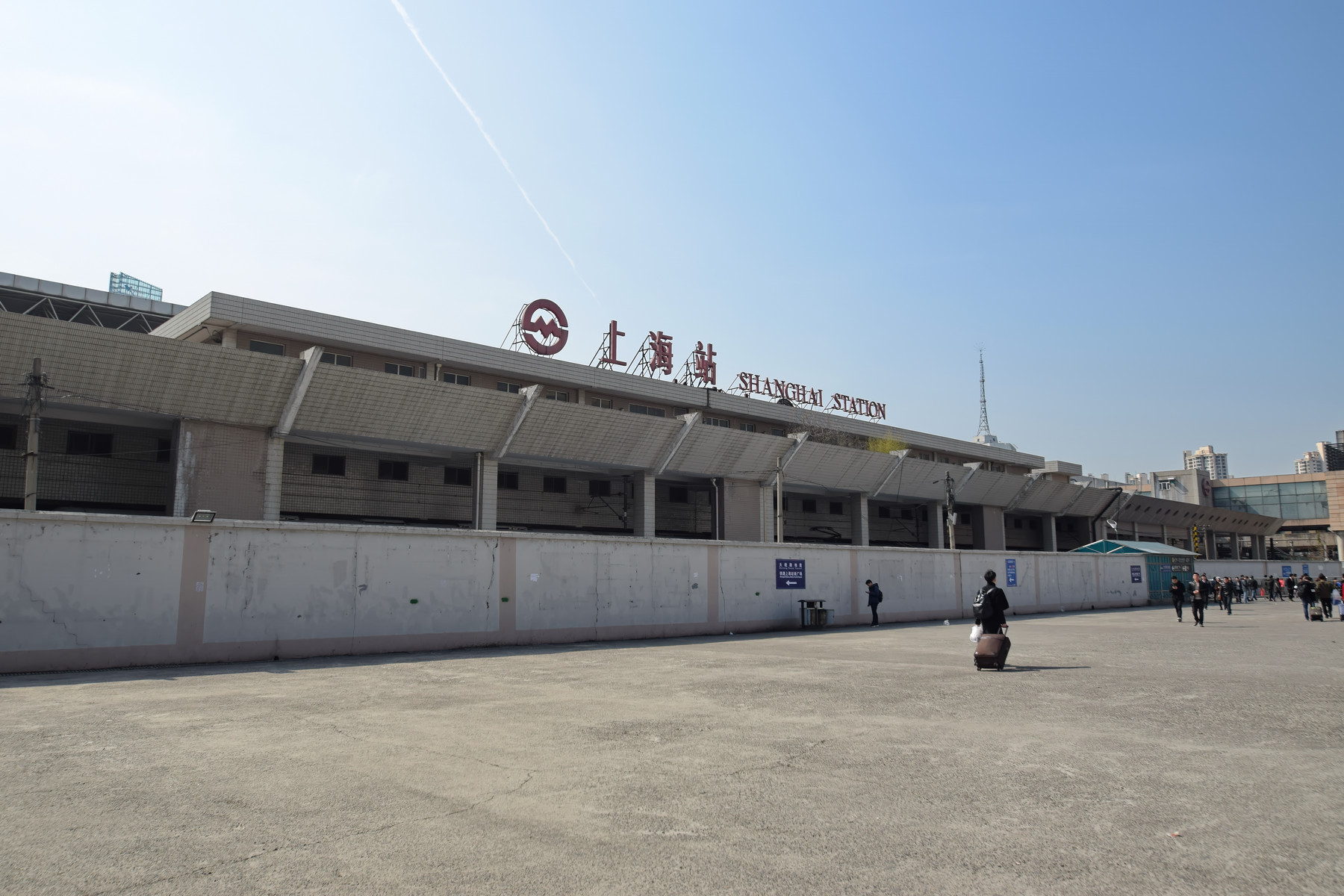 Shanghai Railway Station Station, Shanghai Metro Line 3